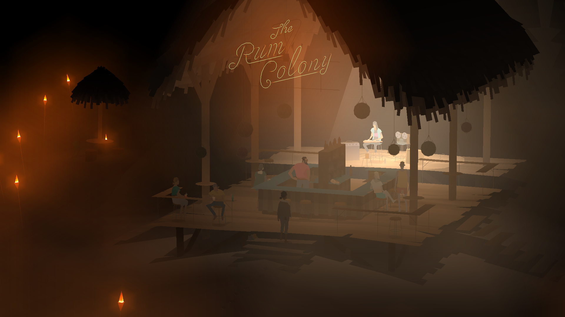 Screenshot of the game Kentucky Route Zero.